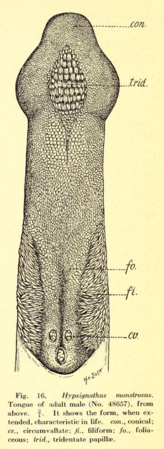 Tridentate tongue of the hammer-headed bat, Hypsignathus monstrosus